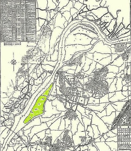 Map of Nanjing, 1929 - Jiangxin Island shaded in green